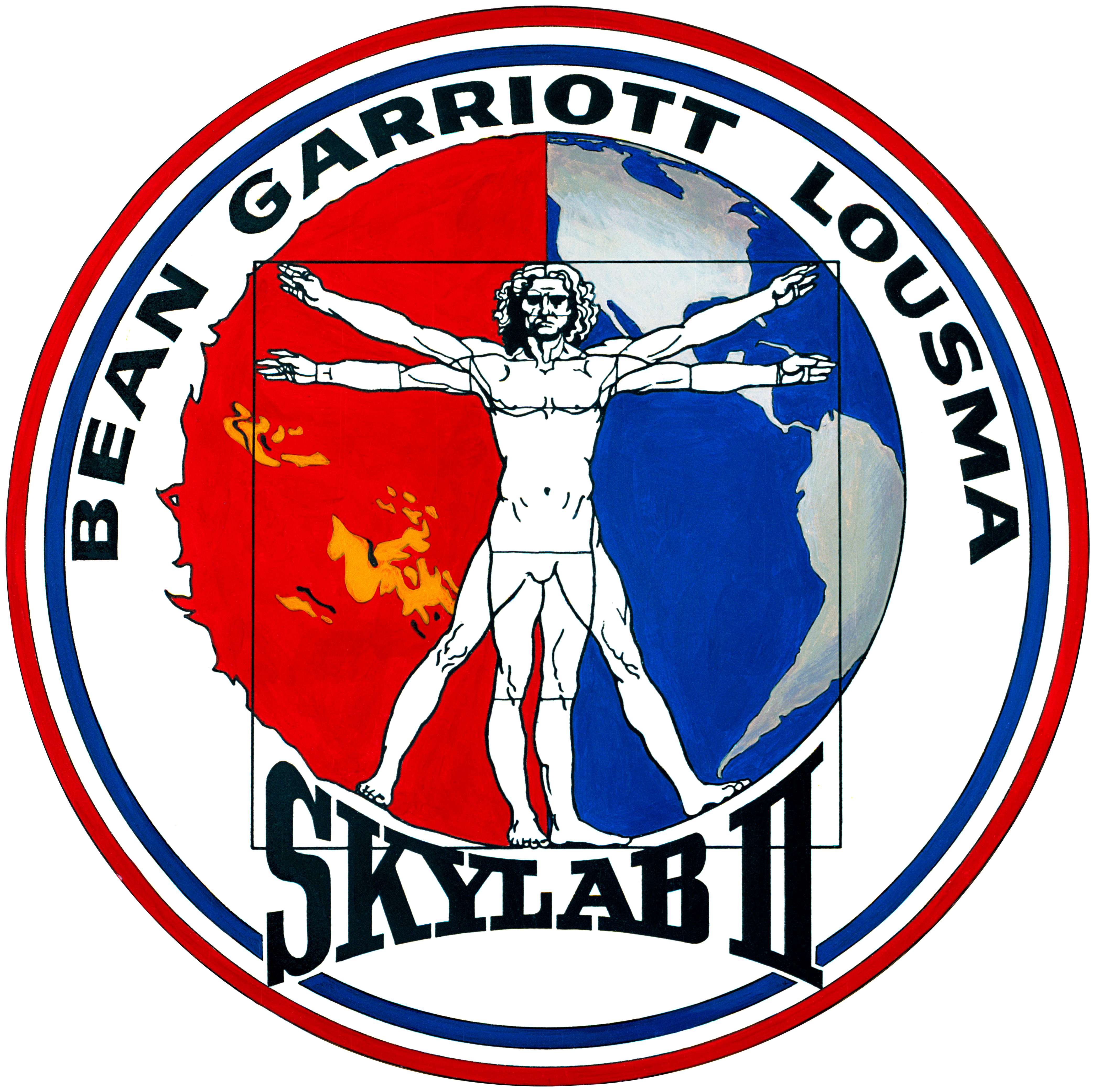 This is the emblem for the second manned Skylab mission. It will be a mission of up to 56 days. The patch symbolizes the main objectives of the flight. The central figure, adapted from one by Leonardo da Vinci, illustrates the proportions of the human form and suggests the many studies of man himself to be conducted in the zero-gravity environment of space. This drawing is superimposed on two hemispheres representing the two additional main areas of research - studies of the Sun and the development of techniques for survey of the Earth's resources. The left hemisphere show the Sun as it will be seen in the red light radiated by hydrogen atoms in the solar atmosphere. The right hemisphere is intended to suggest the studies of Earth resources to be conducted on Skylab. Although the patch denotes this mission as Skylab II, it is actually consided to be the Skylab III mission. Image ID: S72-51123